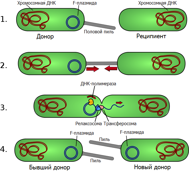 Bacterial conjugation